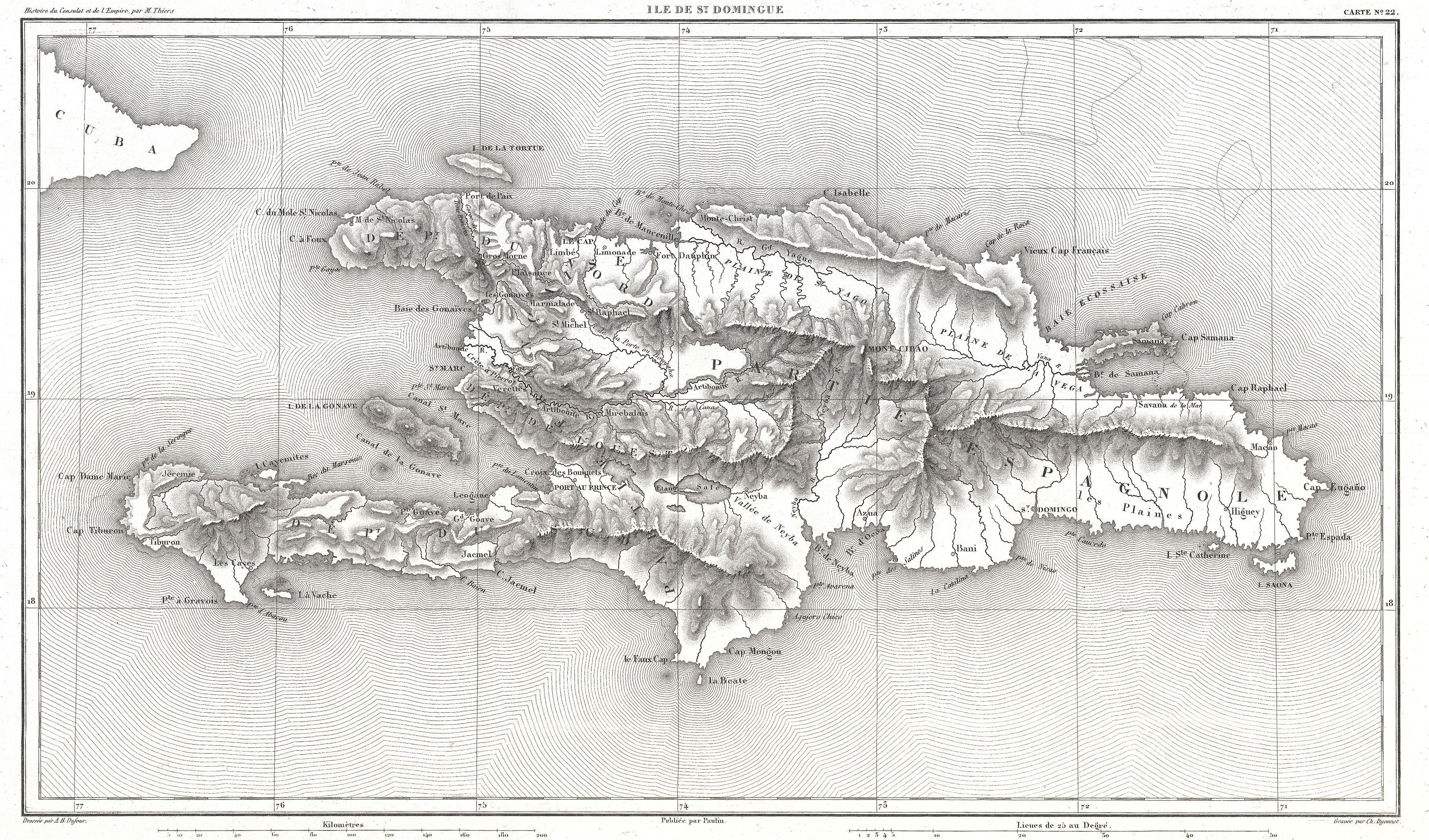 A beautifully engraved map of the West Indies island of Hispaniola or Santo Domingo by the French cartographer August Henri Dufour. Covers the entire island in striking topographical detail. Identifies towns, cities, rivers, lakes, mountains, and various undersea shoals and reefs. Names Mont Cibao, in the central part of the island, where Columbus famously failed to find rich gold mines. Today this island is divided between the Dominican Republic and Haiti. Drawn by A. H. Dufour and engraved by Charles Dyonnet for issue as map no. 22 in M. A. Thiers' History of the Consulate and the Empire of France Under Napoleon , 1859.